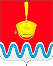 Coat of arms of Borodinskaya, Primorsko-Ajtarsk, Krasnodar, Russia.